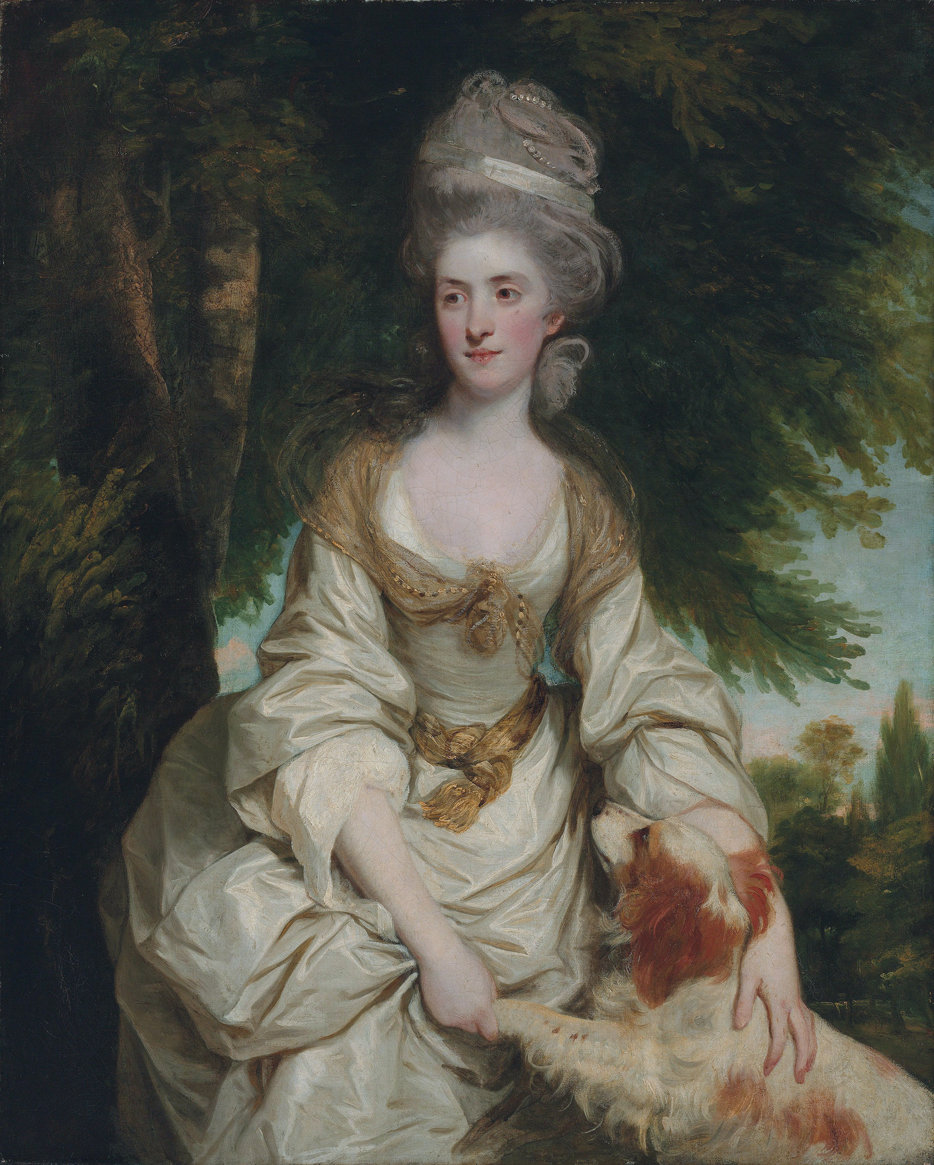 Lucy Long, Mrs George Hardinge (d. 1820), daughter and heiress of Richard Long of Hinxton, Cambridgeshire oil on canvas 127.3 x 102.1 cm 1778